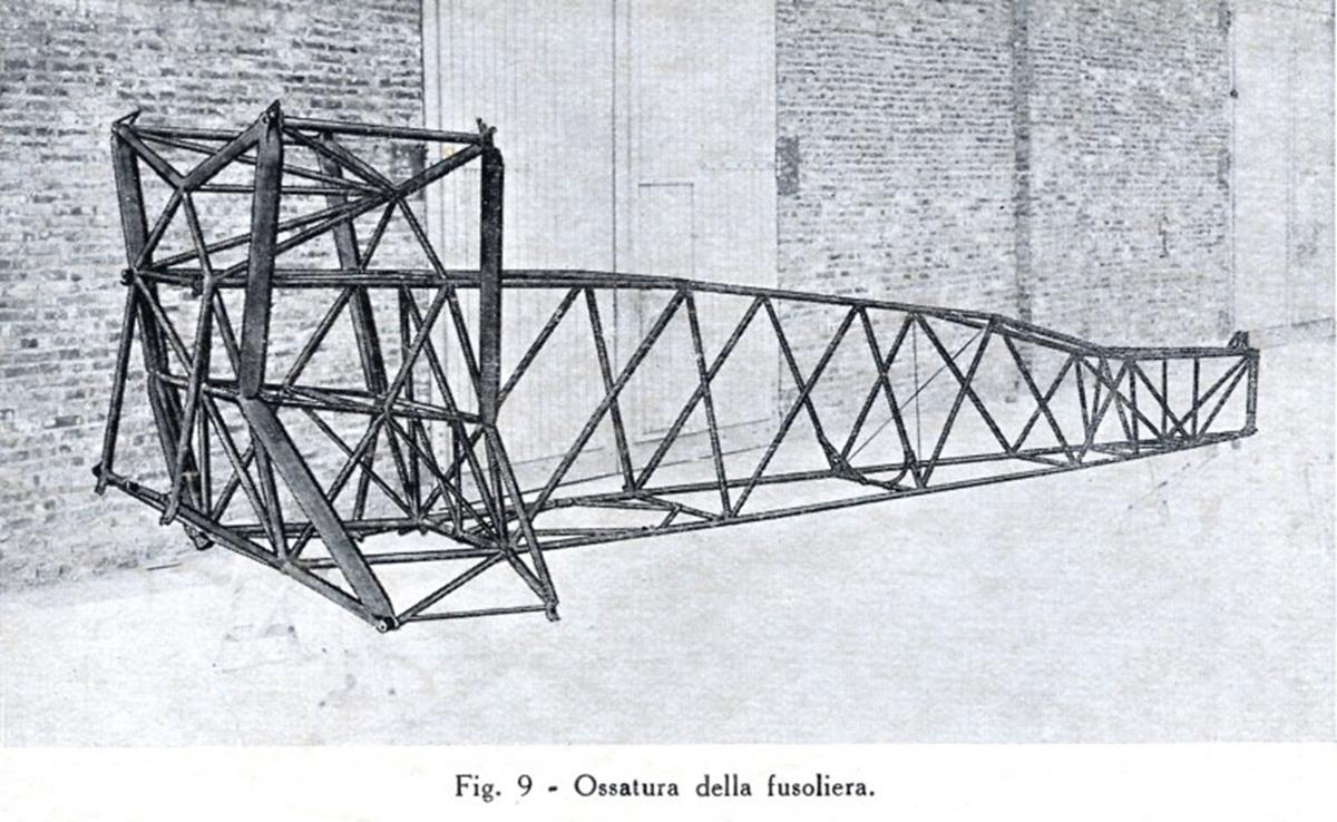 Ro.43 fuselage structure